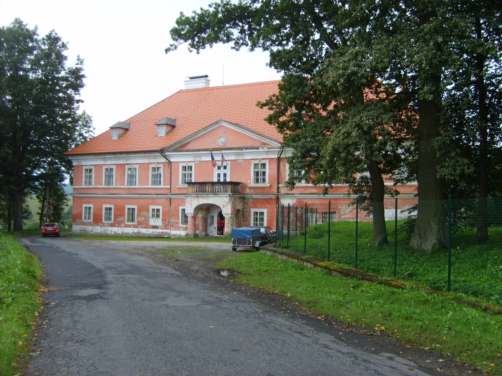 Manor house in Kundratice, part of town Hartmanice, Klatovy District, CZ.